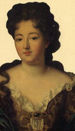 Jeanne Baptiste d'Albert